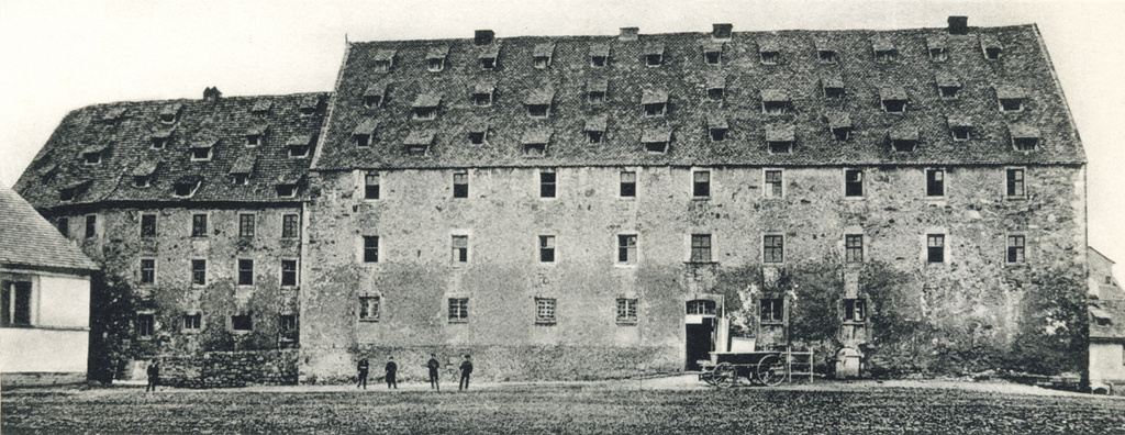 The northern wing of the erstwhile monastery Ahnaberg in Kassel, demolished in 1878